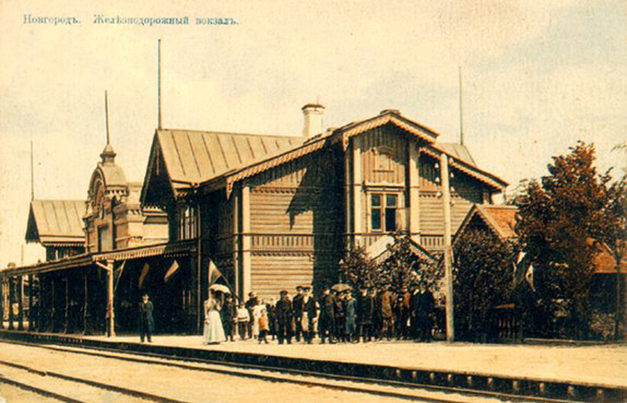 Novgorod train station